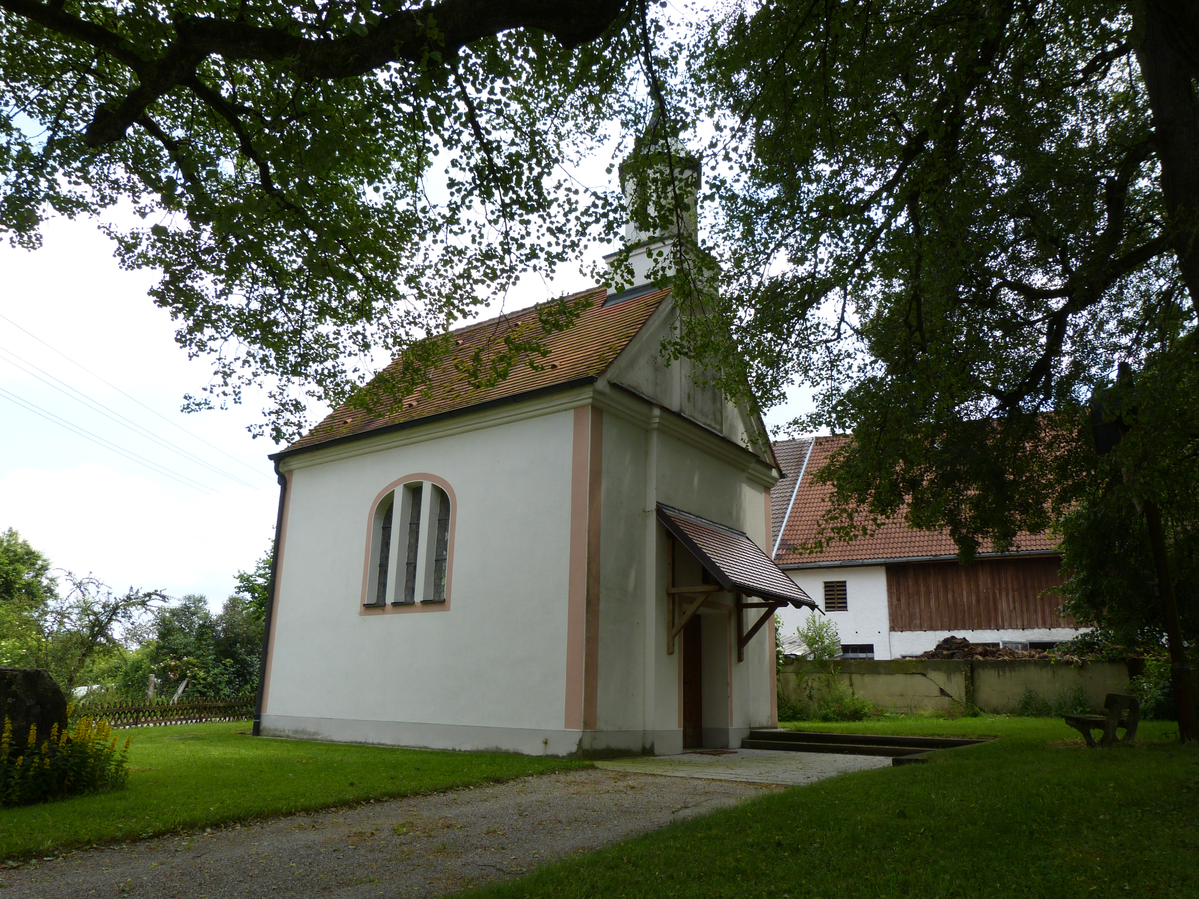 St. Wendelin in Berg near Türkheim, Landkreis Unterallgäu, Bavaria